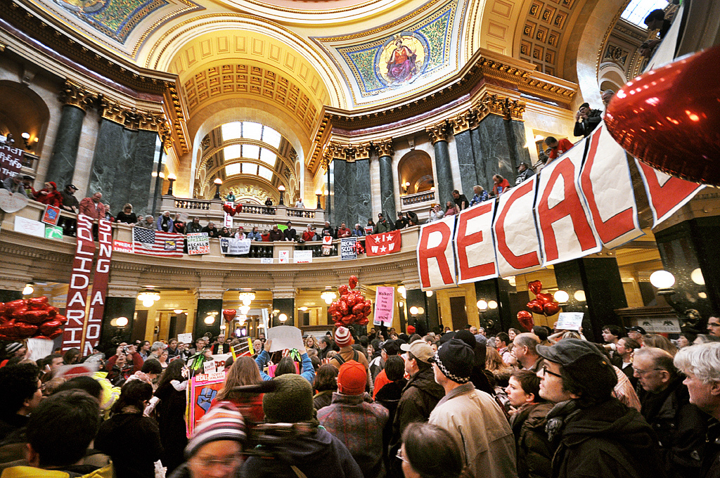 Joining in the Solidarity Sing Along, back where it all started a year ago.